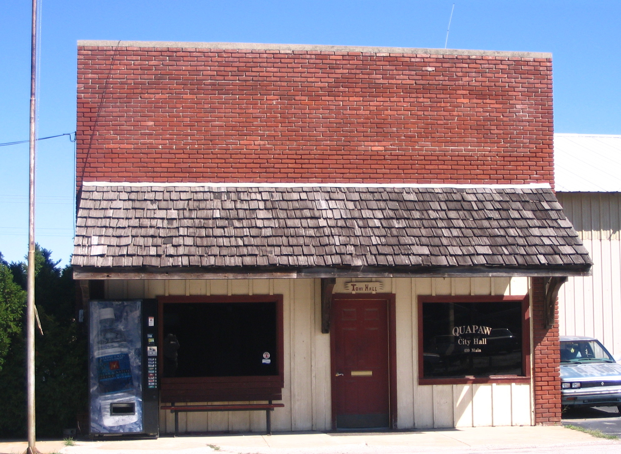 Quapaw, OK City Hall